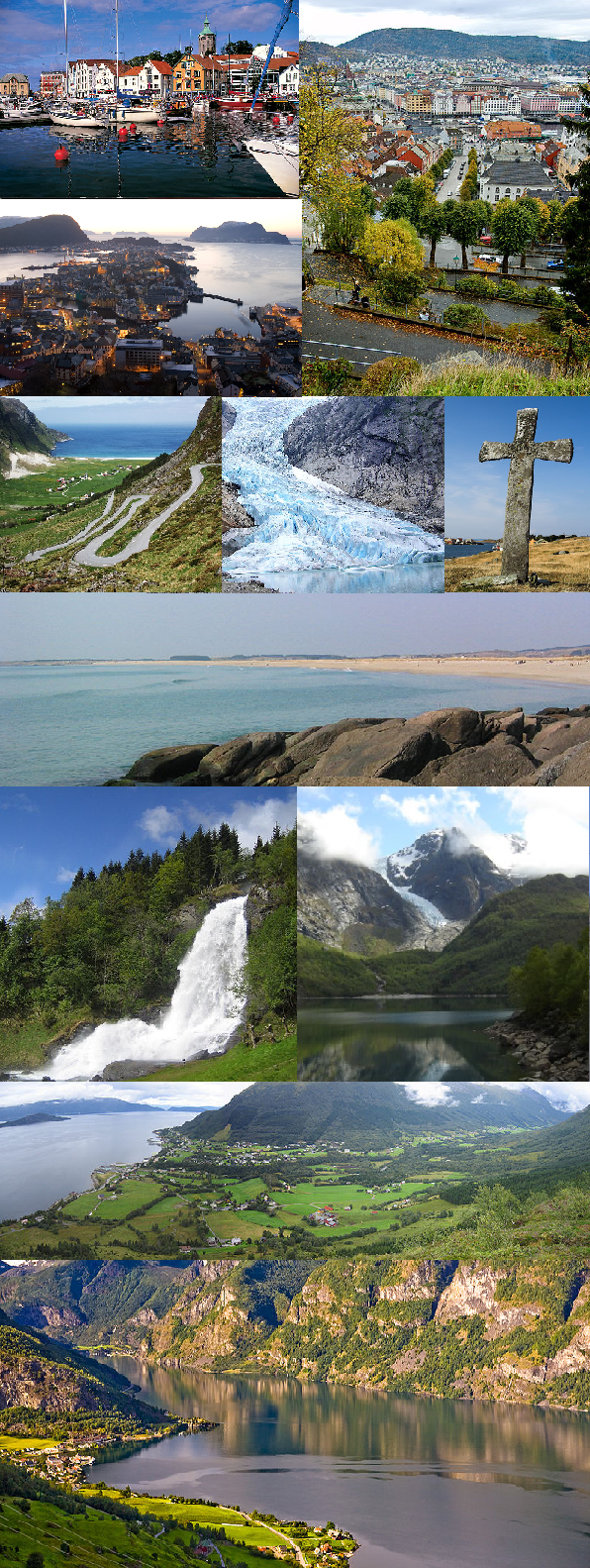 A collage made with some pictures from Western Norway.